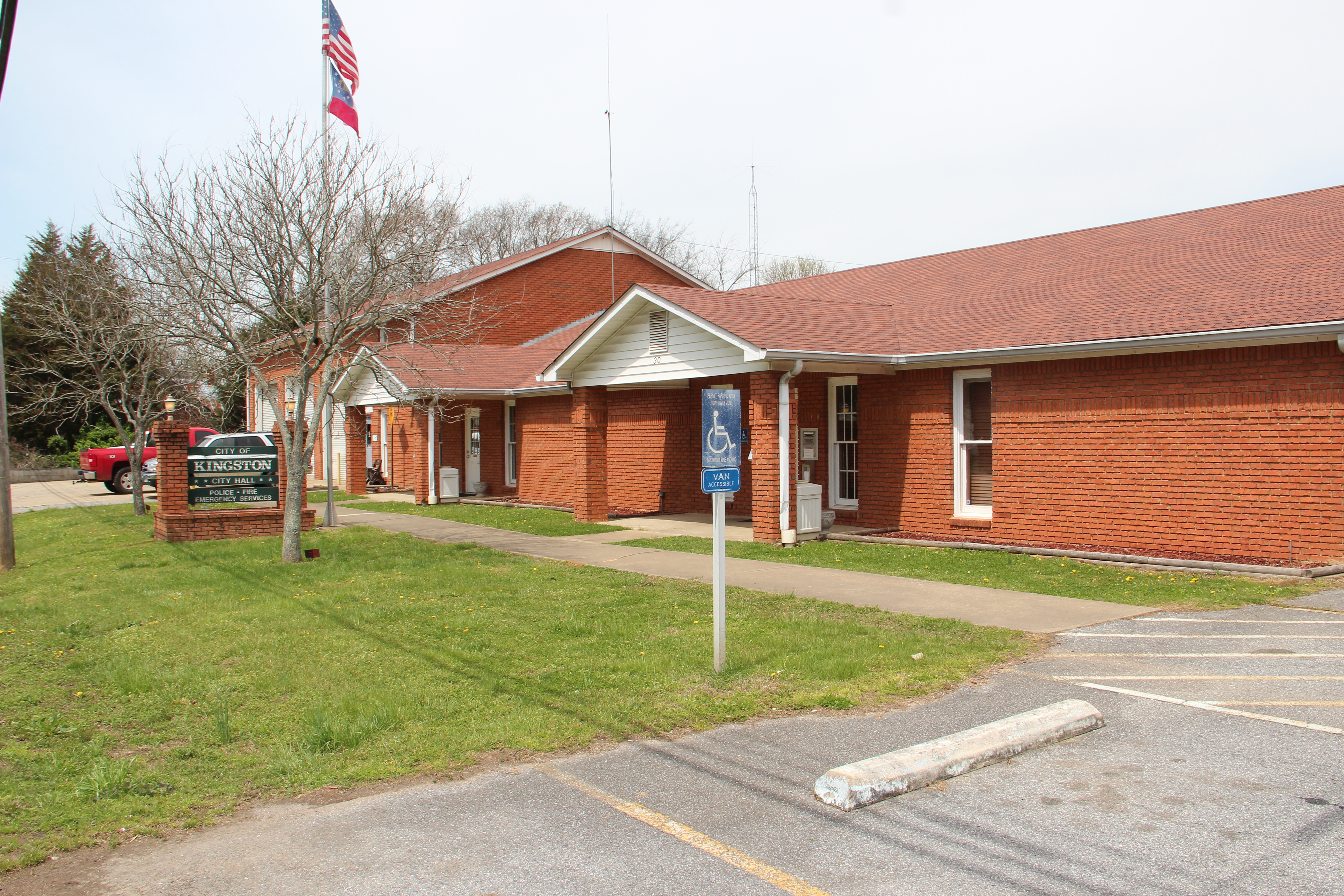 Kingston, Georgia City Hall